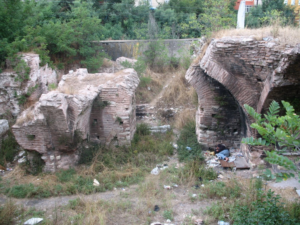 The Palace of Bucoleon.